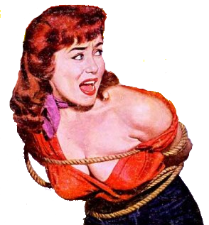 Published in True Men magazine